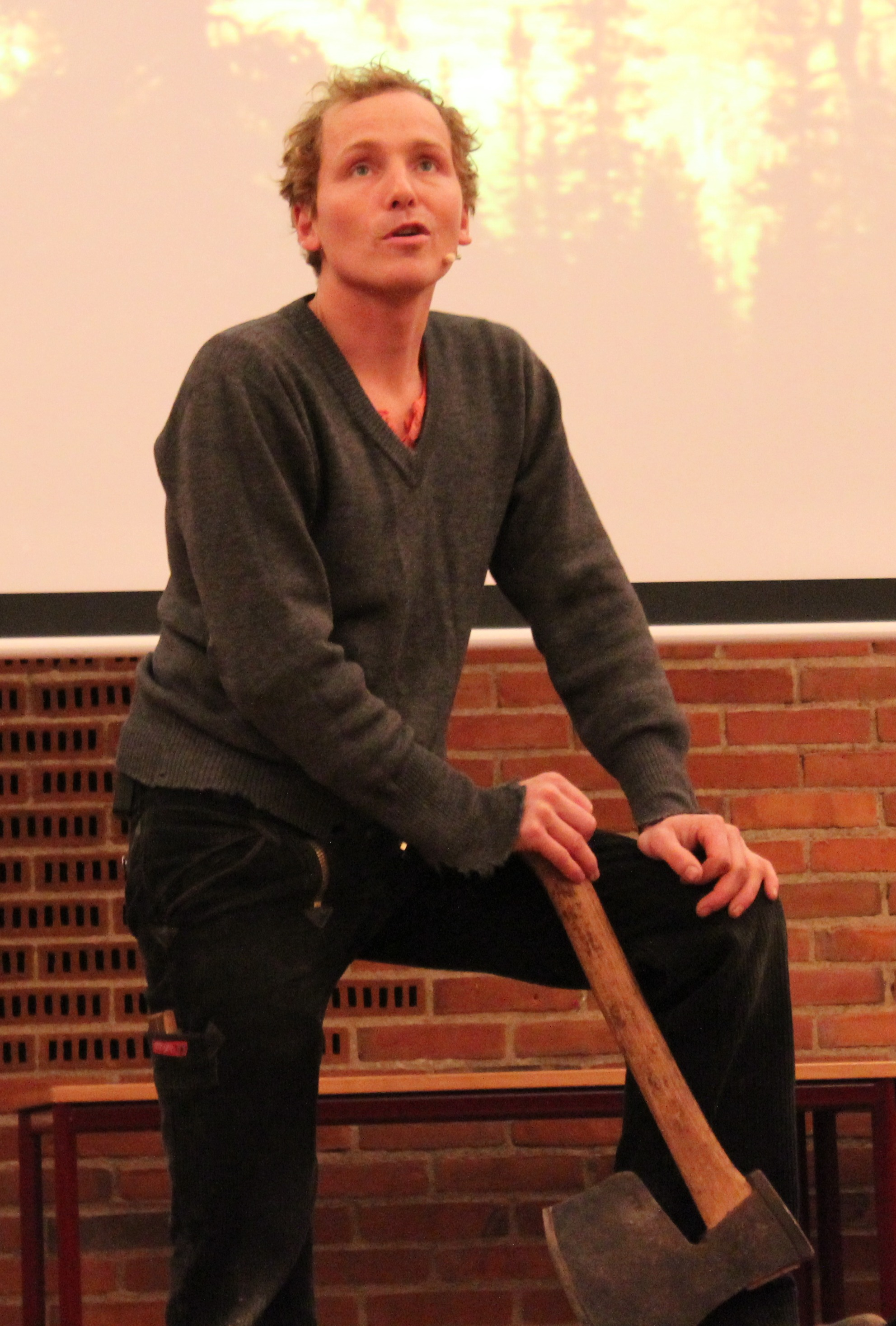 Frank Erichsen also known as "Bonderøven"